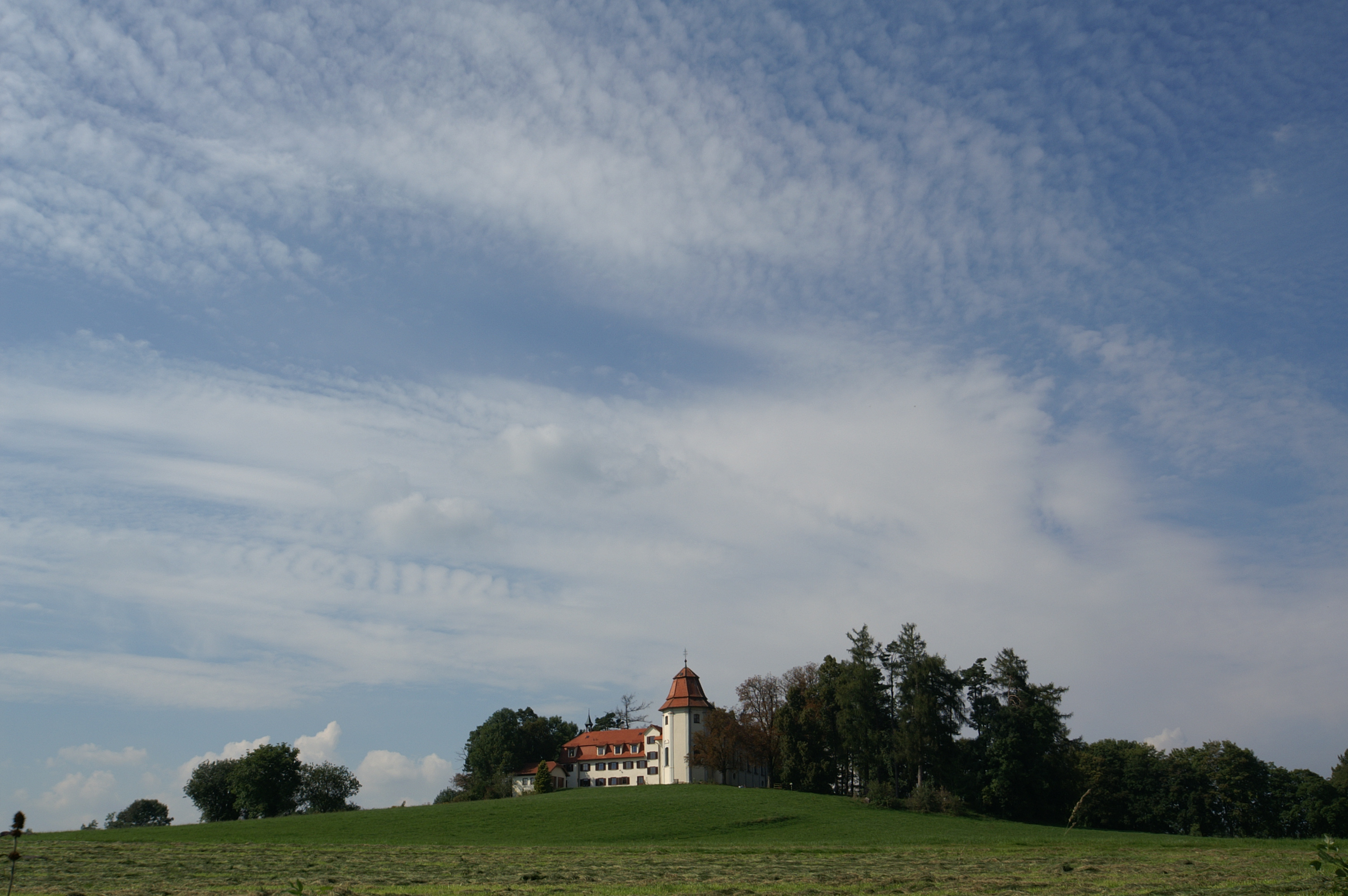 Bad Wurzach, Wallfahrtskirche und Salvatorianerkloster Gottesberg, view from south-south-west